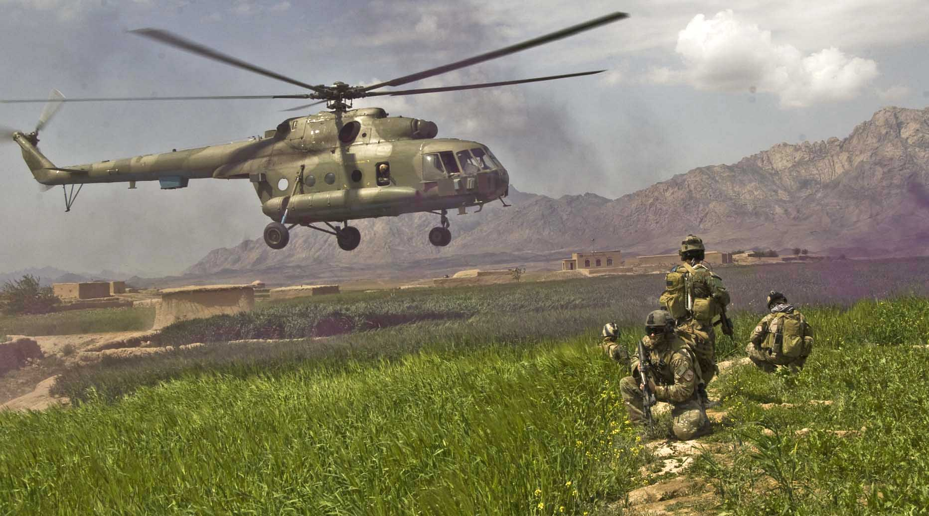 Coalition forces pull security for the safety of the pilots and team of an MI-17 helicopter as it leaves the Gulistan district in Farah province, Afghanistan, April 12, 2009